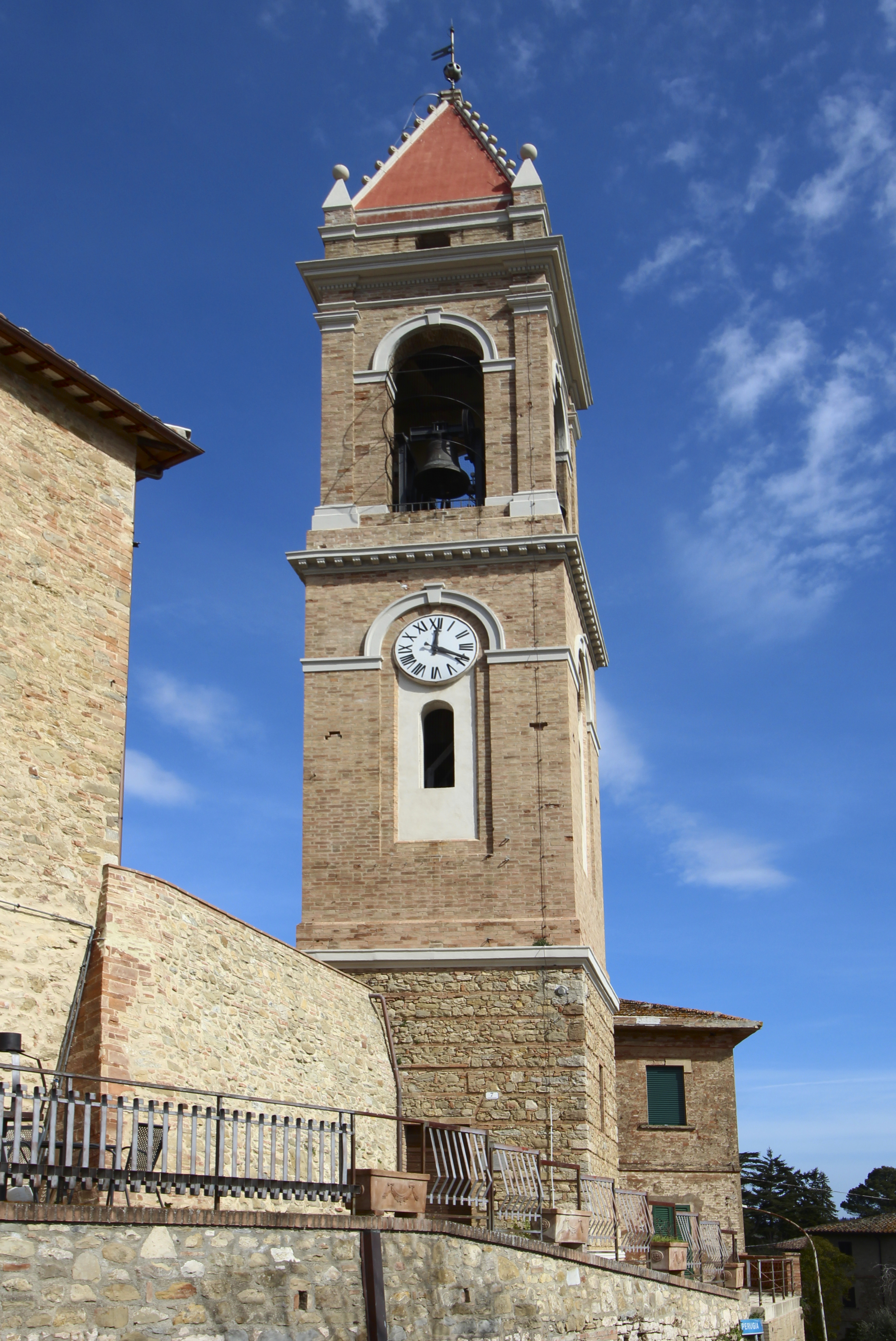 Campanile of Compignano, hamlet of Marsciano, Province of Perugia, Umbria, Italy